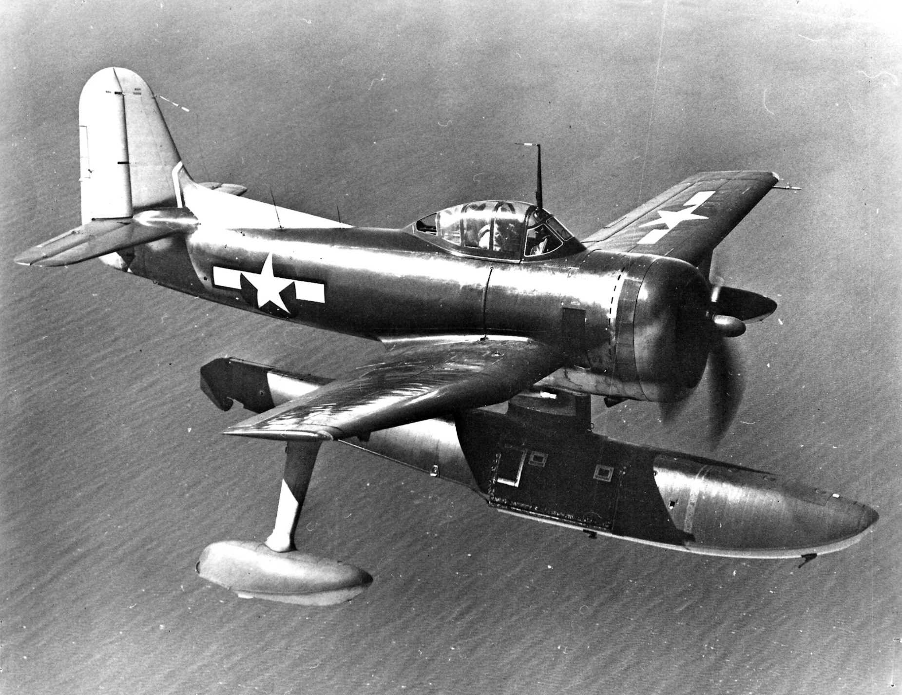 A U.S. Navy Curtiss SC-1 Seahawk (BuNo.35299) in flight.